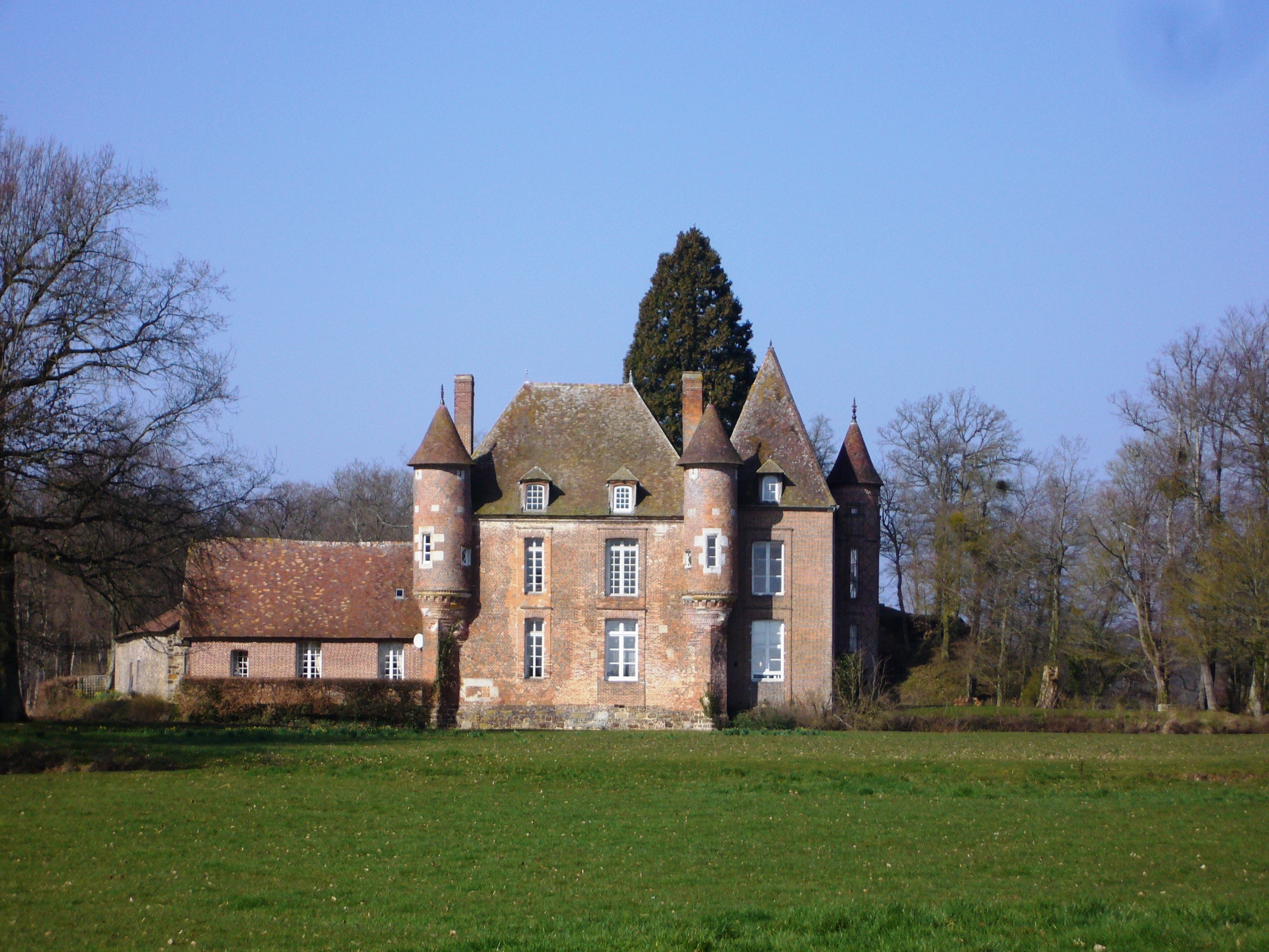 Manoir de Rebais, Les Bottereaux, Eure.